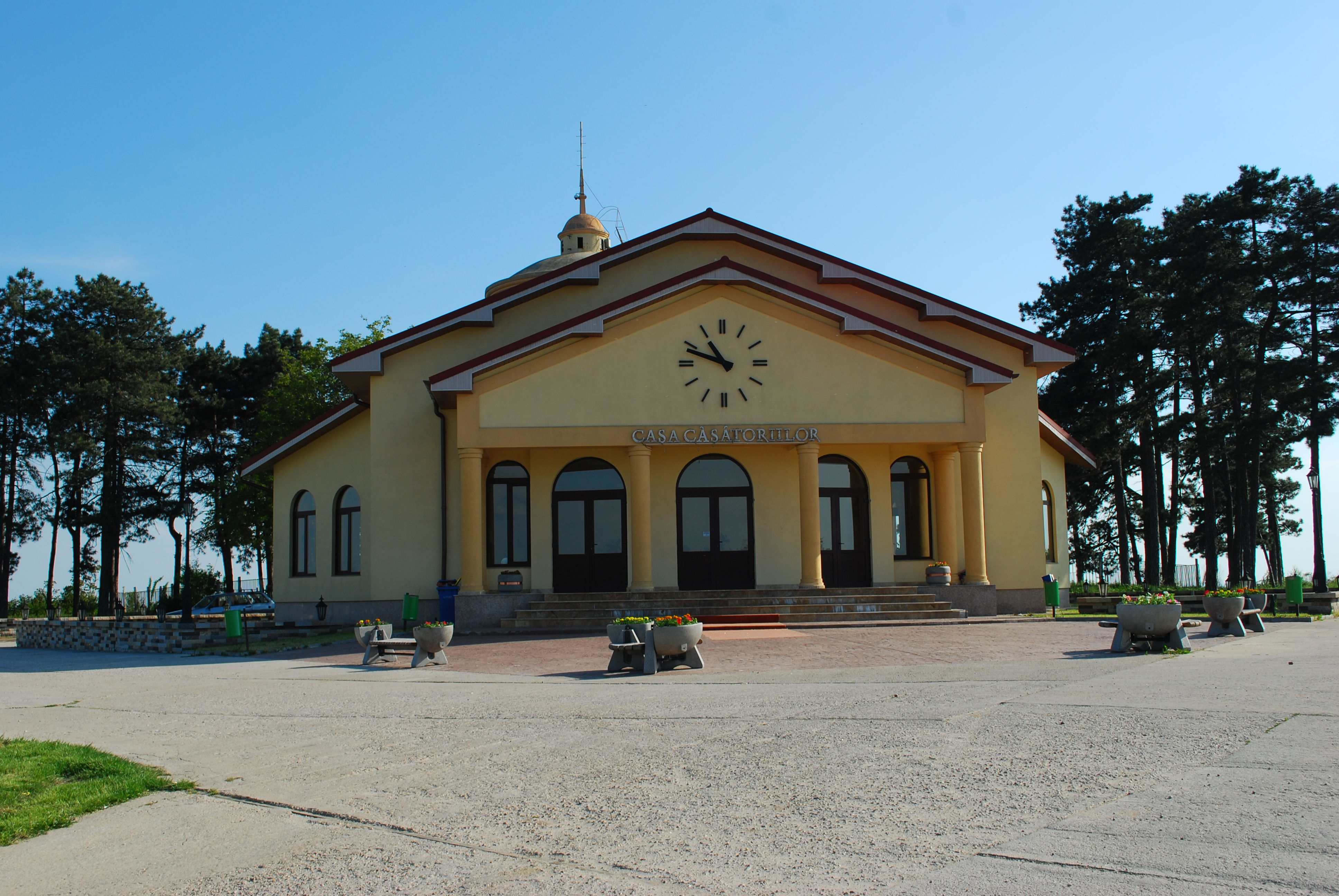 The marriage house on Grădişte hill, Slatina, Olt County, RomaniaRomână: Casa Căsătoriilor de pe dealul Grădişte, Slatina, judeţul Olt, România